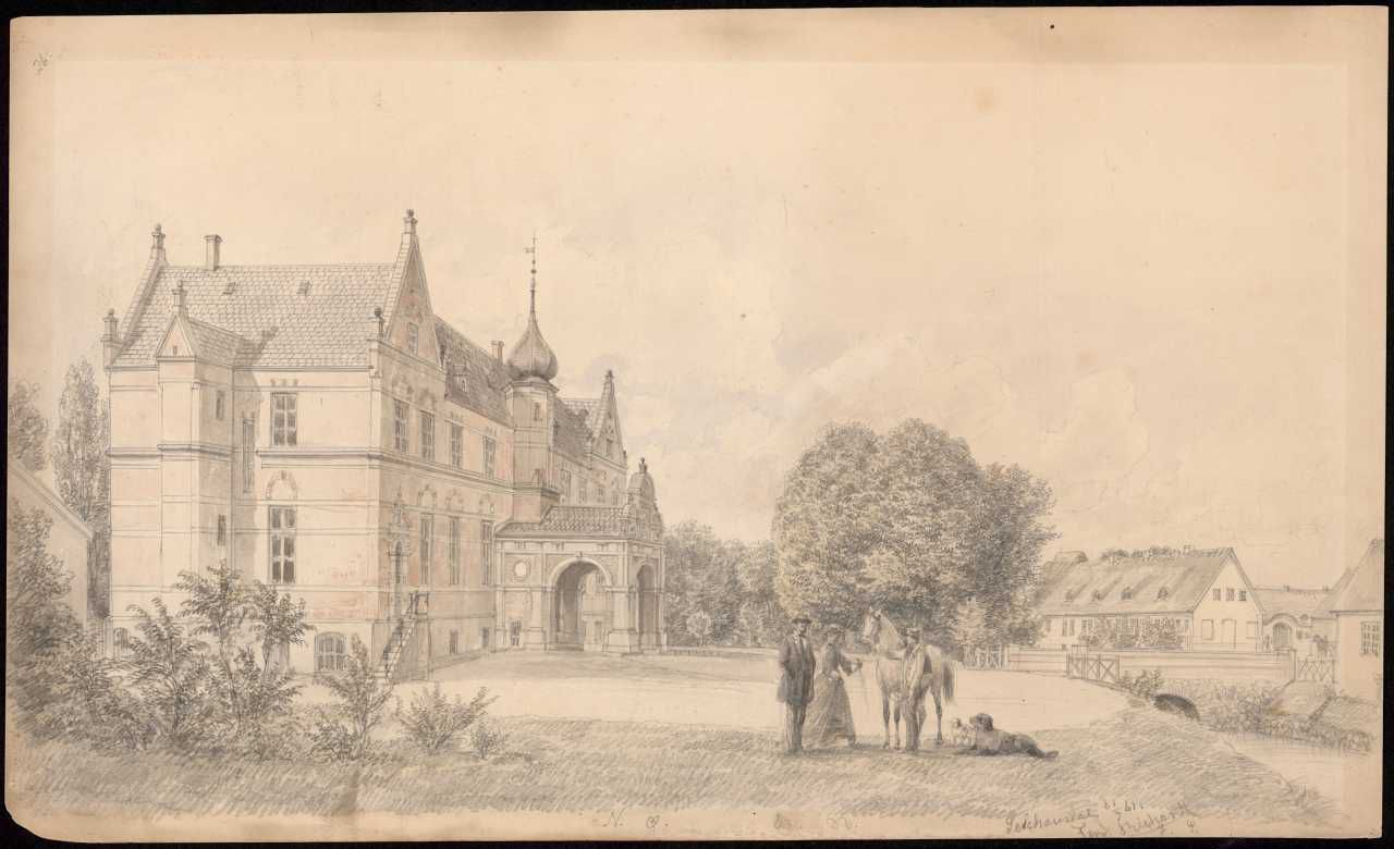 Selchausdal at Holbæk, Denmark